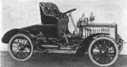 Image from an EHV Company advertisement for their "Compound" automobile Title Motor age, Volume 7 Publisher Class Journal Co., 1905 Original from the New York Public Library Digitized Jun 24, 2006 Google Books